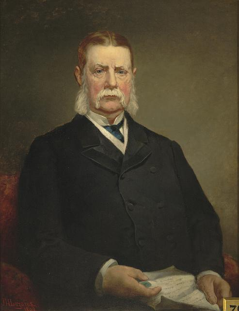 Portrait of John Jacob Astor III, New York City businessman. Astor is shown with a black coat and blue tie, seated on a red chair, holding paper with writing on it in his hands.